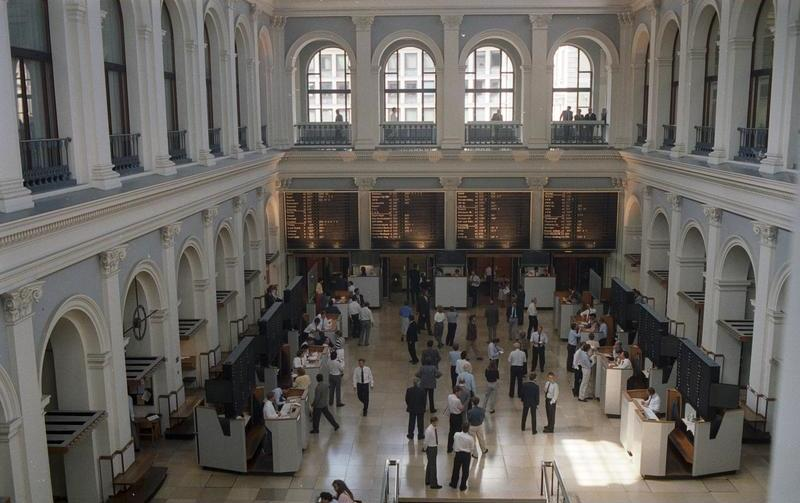 Juni 1988 Hamburg, Börse Information added by Wikimedia users.This is a photograph of an architectural monument.